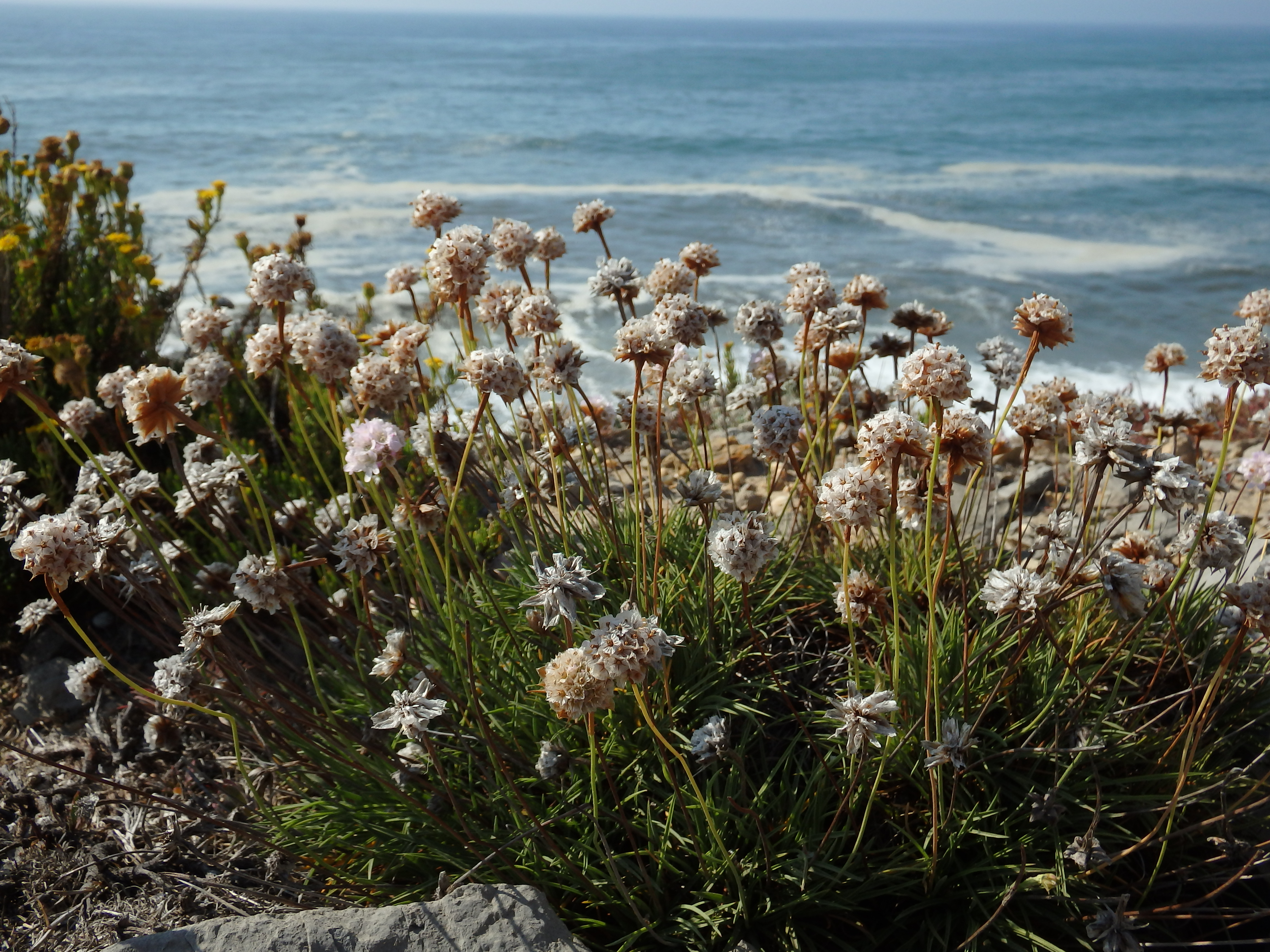 Armeria welwitschii in the Cape Mondego Natural Monument, also included in the Dunas de Mira, Gândaras e Gafanhas Natura 2000 Site. This is a photography of a Site of Community Importance in Portugal with the ID: PTCON0055. Natura2000 entry, EEA entry